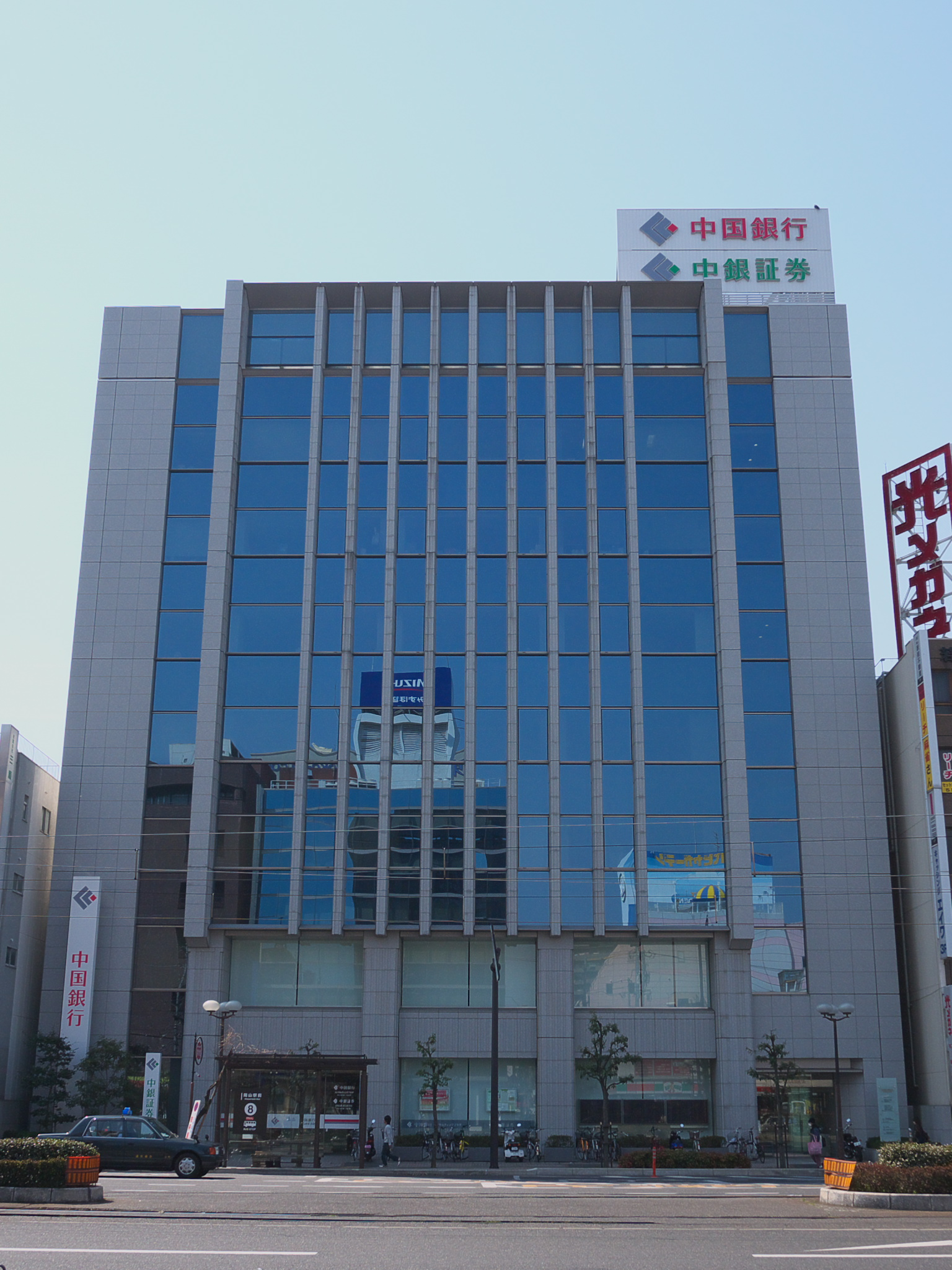 "Chugin Ekimae Building" in front of the Okayama station, Okayama, Japan. Chugoku Bank Okayama-Ekimae Branch, and Chugin Securities head office.